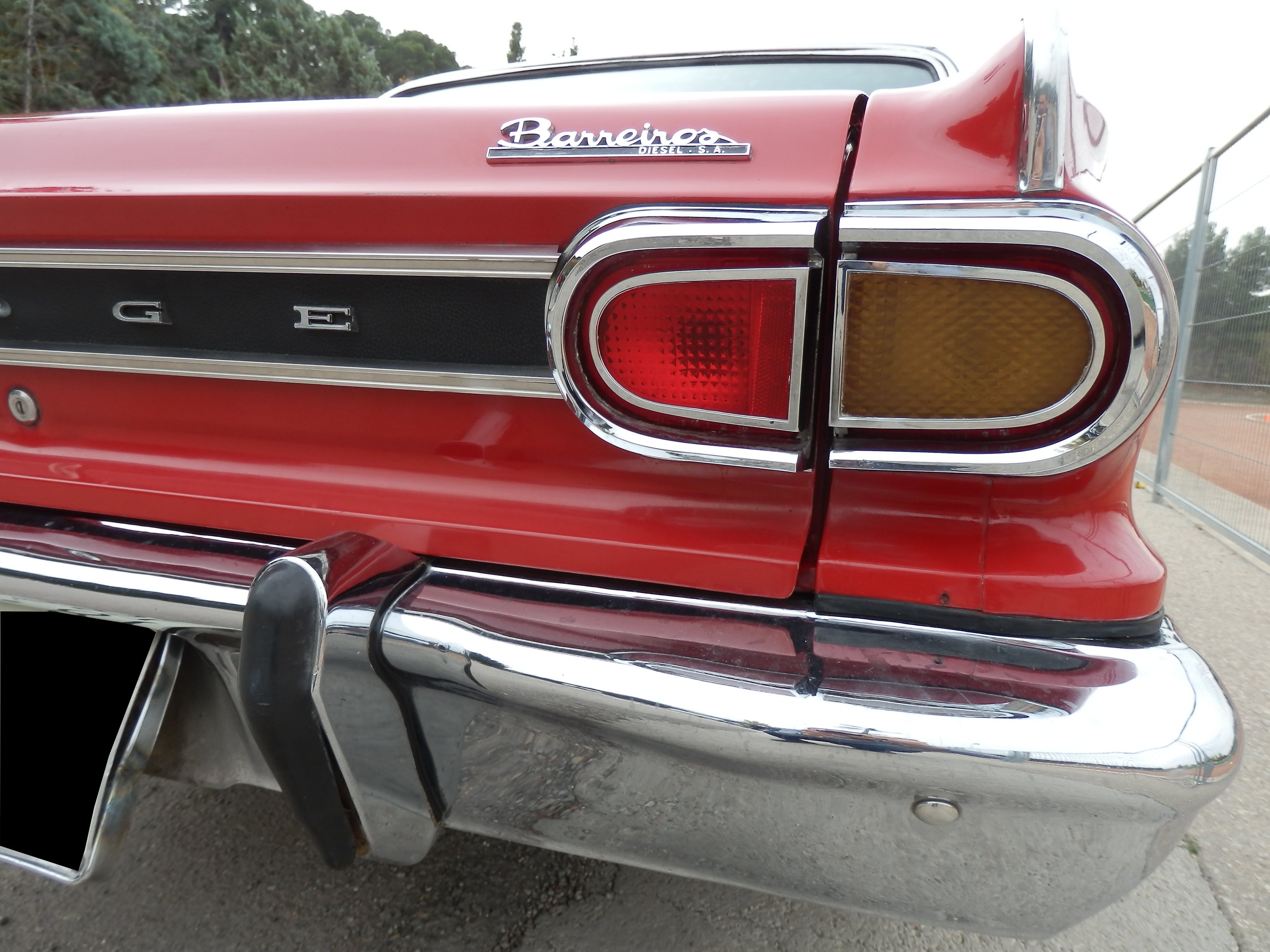 1969 Dodge Dart GT built by Barreiros Diésel S.A in Spain. Gasoline motor. 6 cylinder. 163 HP.